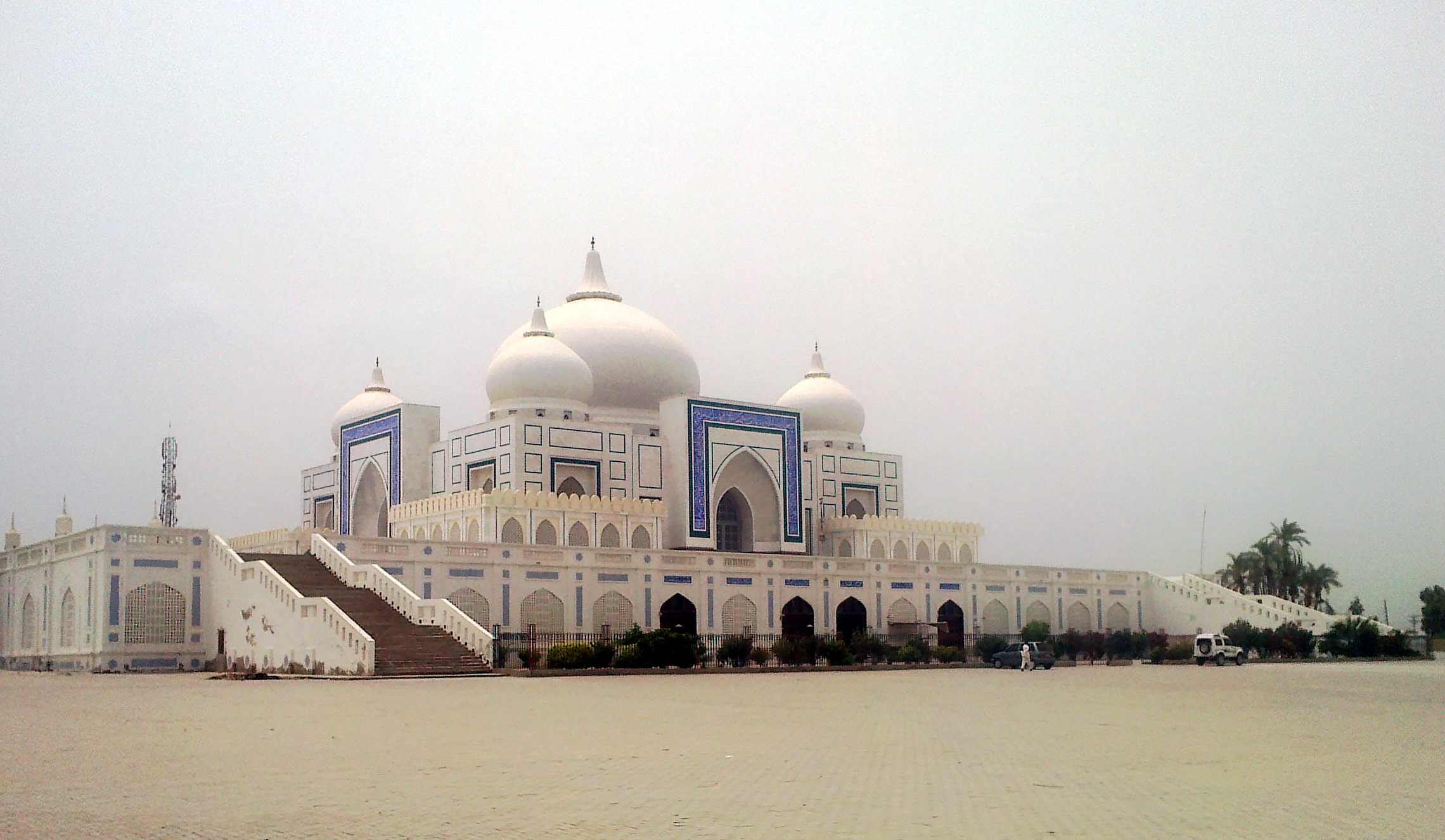 Shaheed Zulfiqar Ali Bhutto, Shaheed Mir Murtaza Bhutto, Shaheed Shahnawaz Bhutto and Shaeed Muhtarma Benazir Bhuttos Tomb in Garhi Khuda Bux Bhutto near Naon Dero District Larkana Sindh